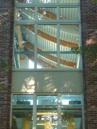 K Choi Building at University of British Columbia. Image of interior vaulted roof spaces